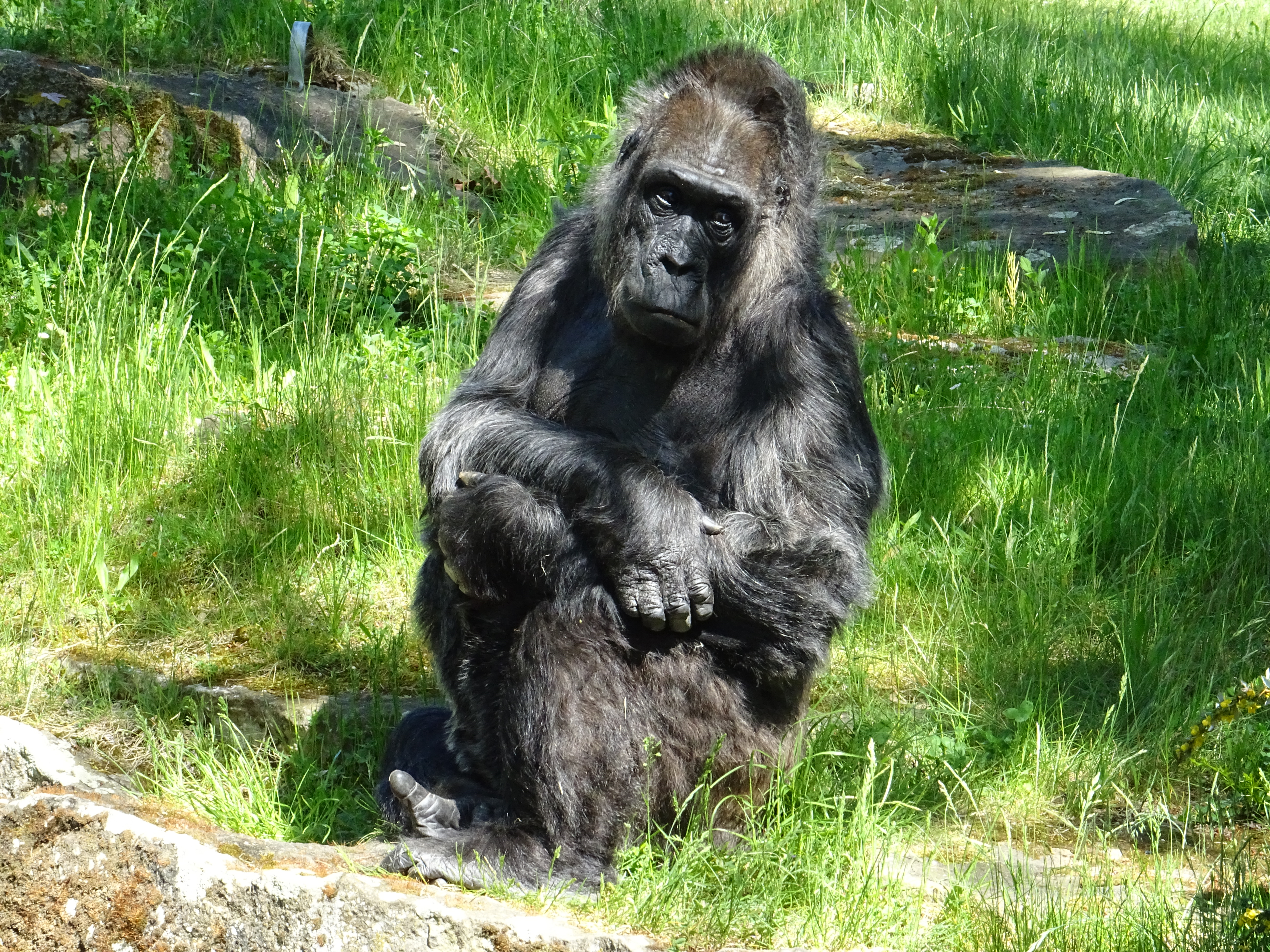 Fatou, a western lowland gorilla (Gorilla gorilla gorilla) in Zoo Berlin.